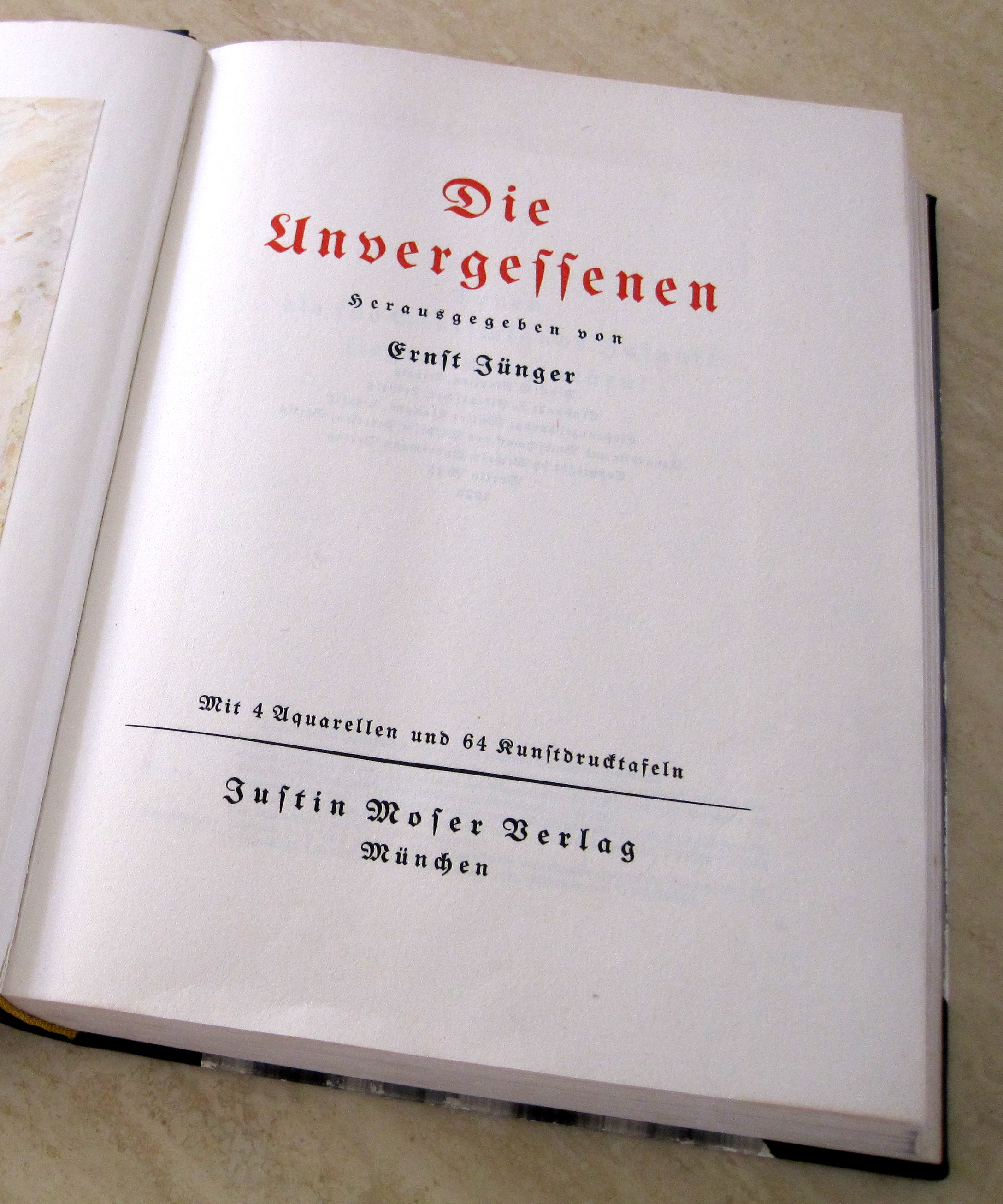 Ernst Jünger (Hrsg.): "Die Unvergessenen", 1928. Vor dem Titel ein Portrait "Maximilian von Spee" von Wilhelm Petersen (1900–1987).